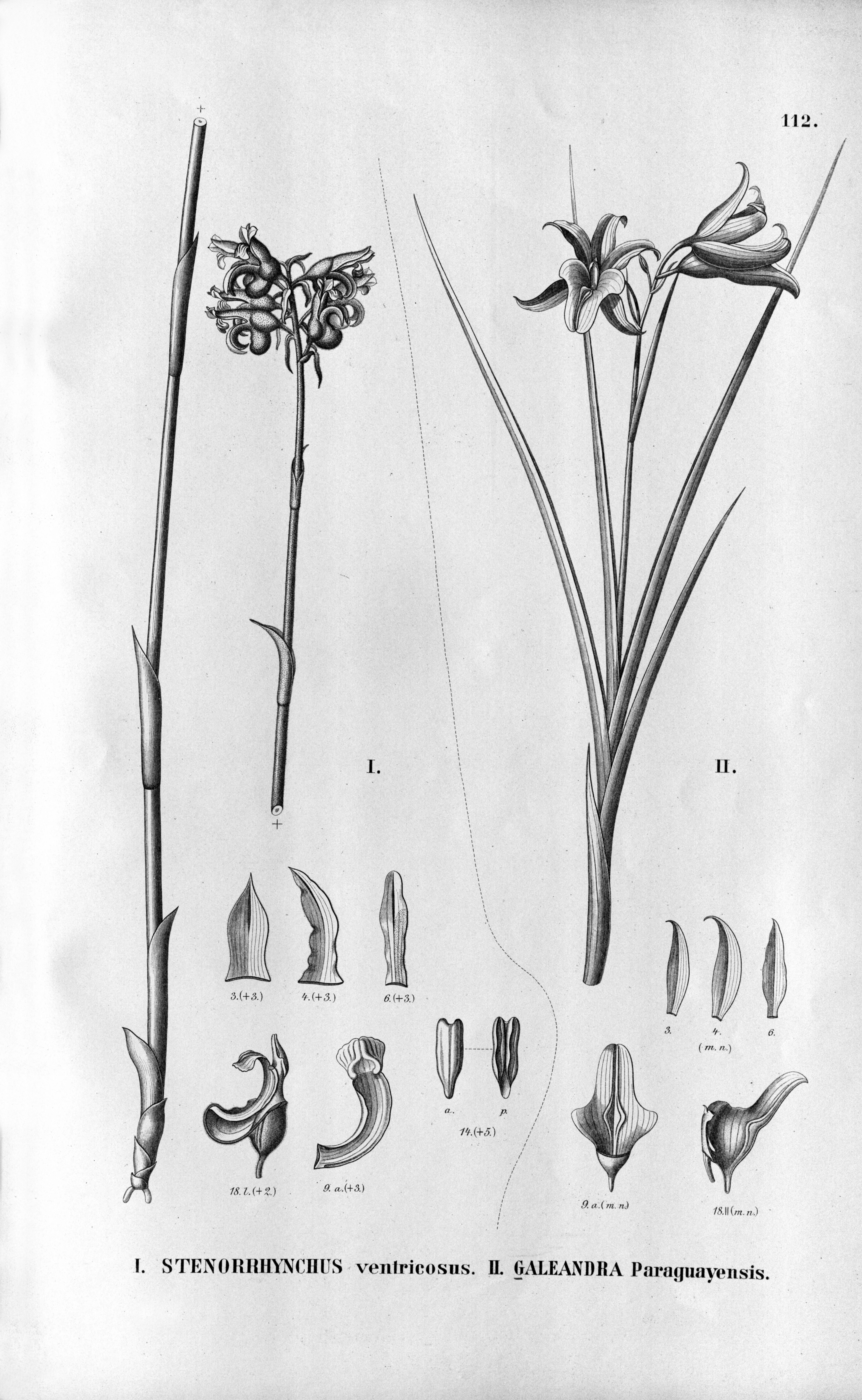 Illustration of I. Pelexia ventricosa (as syn. Stenorrhynchus ventricosus, Kew Gardens 'World Checklist' link : Stenorrhynchos ventricosum) II. Galeandra paraguayensis